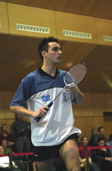 austrian league